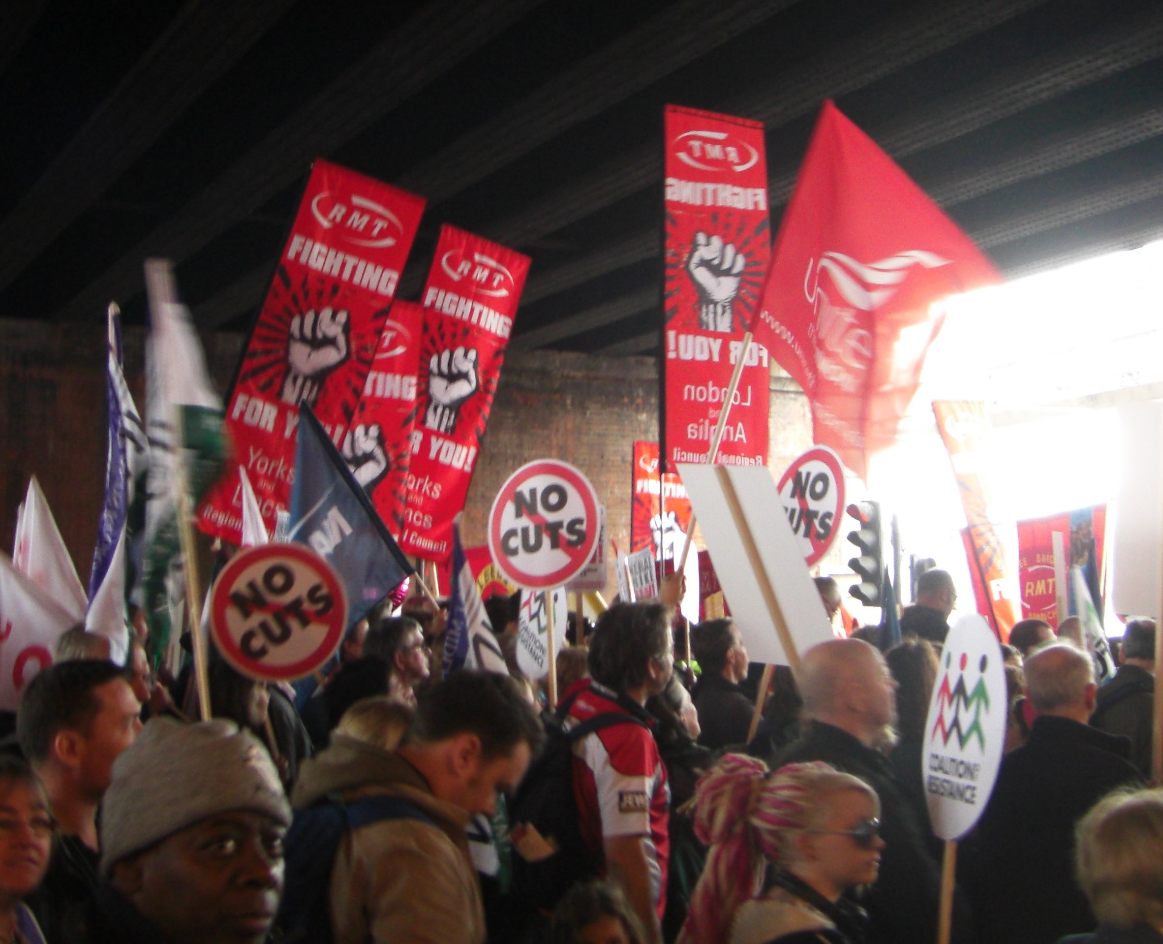 RMT banners at the March for the Alternative in London.